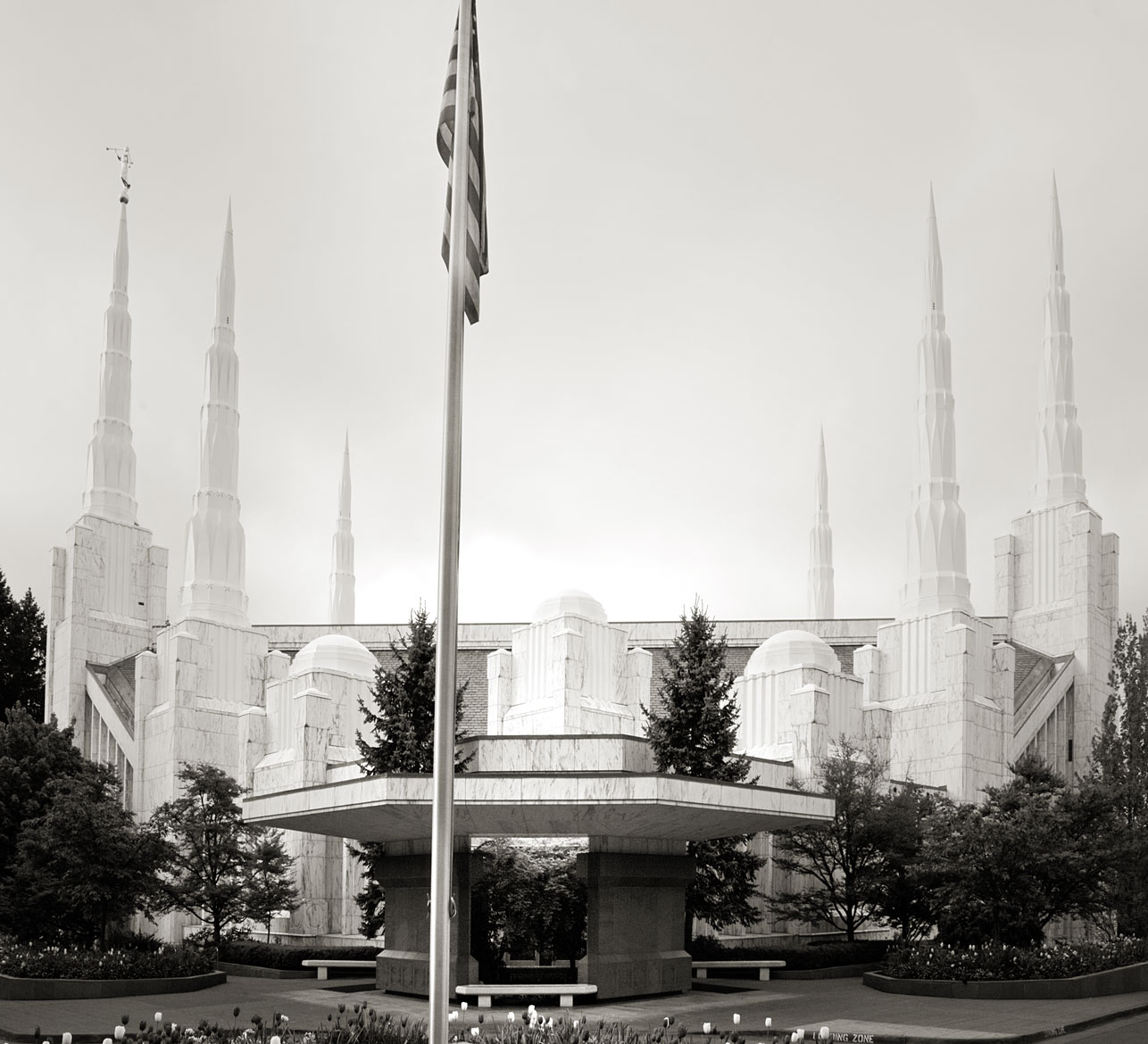 The Portland Oregon Temple, the 42nd operating temple of The Church of Jesus Christ of Latter-day Saints, located near the intersection of Highway 217 and I-5 in Lake Oswego, Oregon.